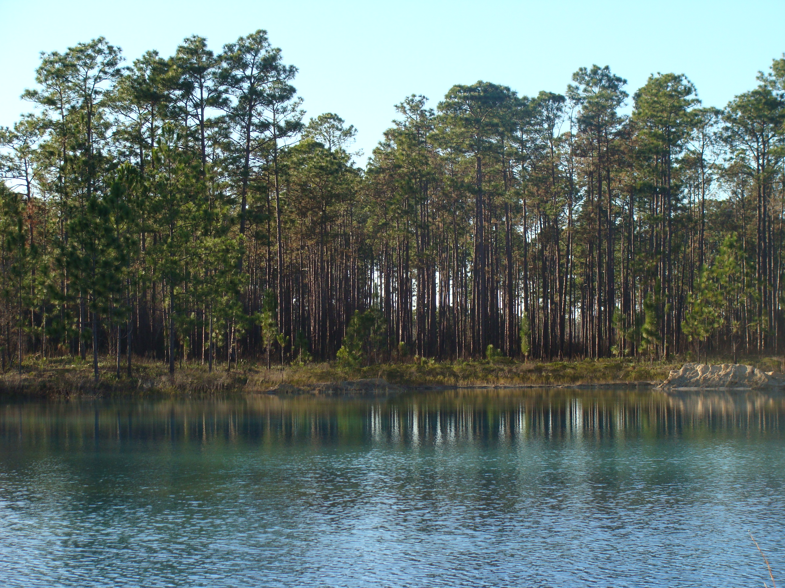 An artificial pond off of FH-111 in the Apalachicola National Forest in northern Florida.